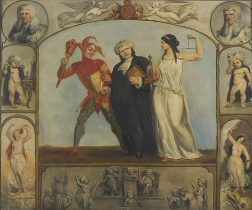 Renton Nicholson dressed as the chief justice.